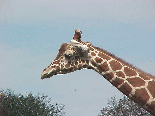 Seattle Zoo